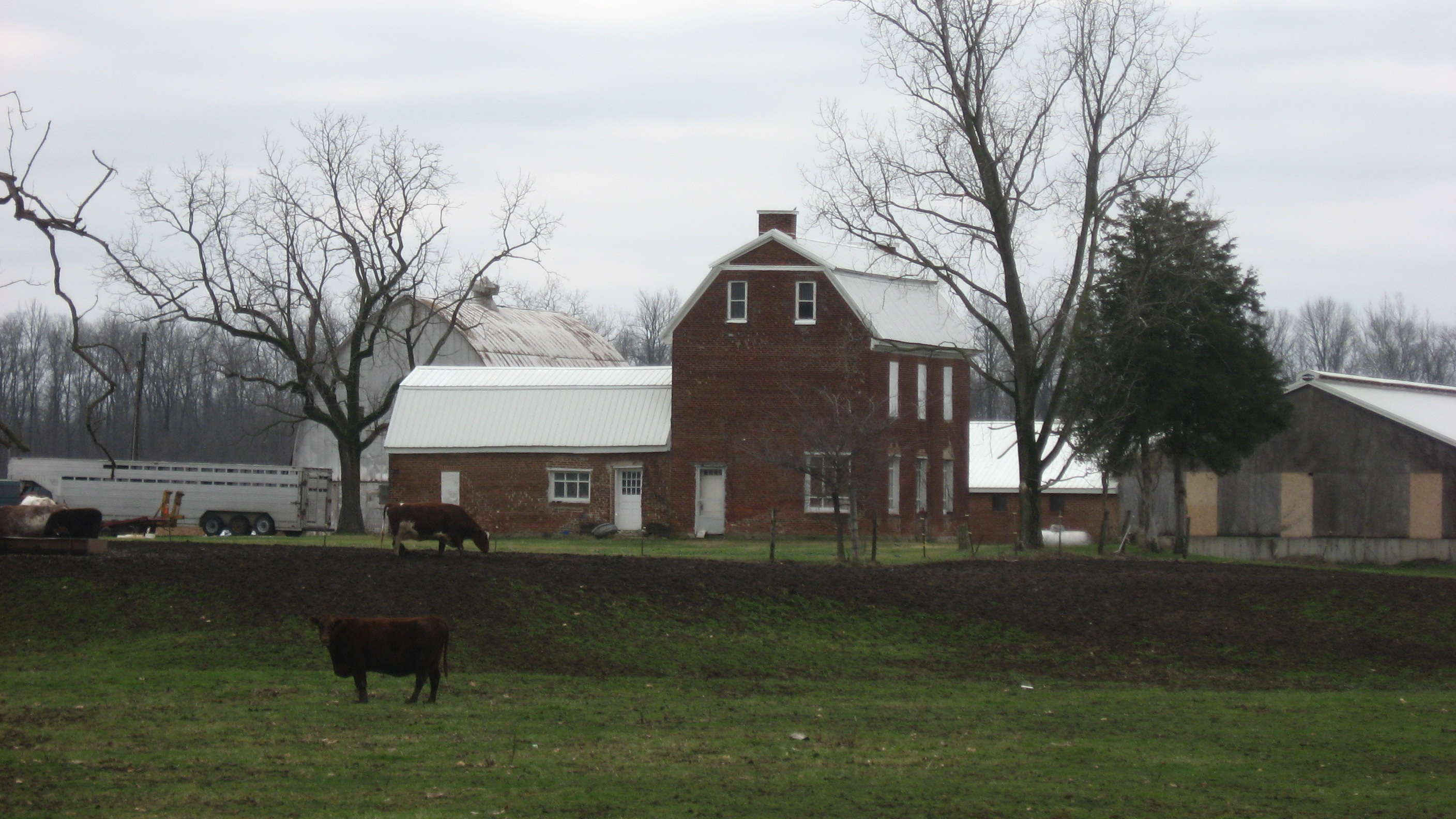 Front of the Wilson-Lenox House, located at 9804 Houston Road west of Sidney in Washington Township, Shelby County, Ohio, United States. Built in 1816, it is listed on the National Register of Historic Places.